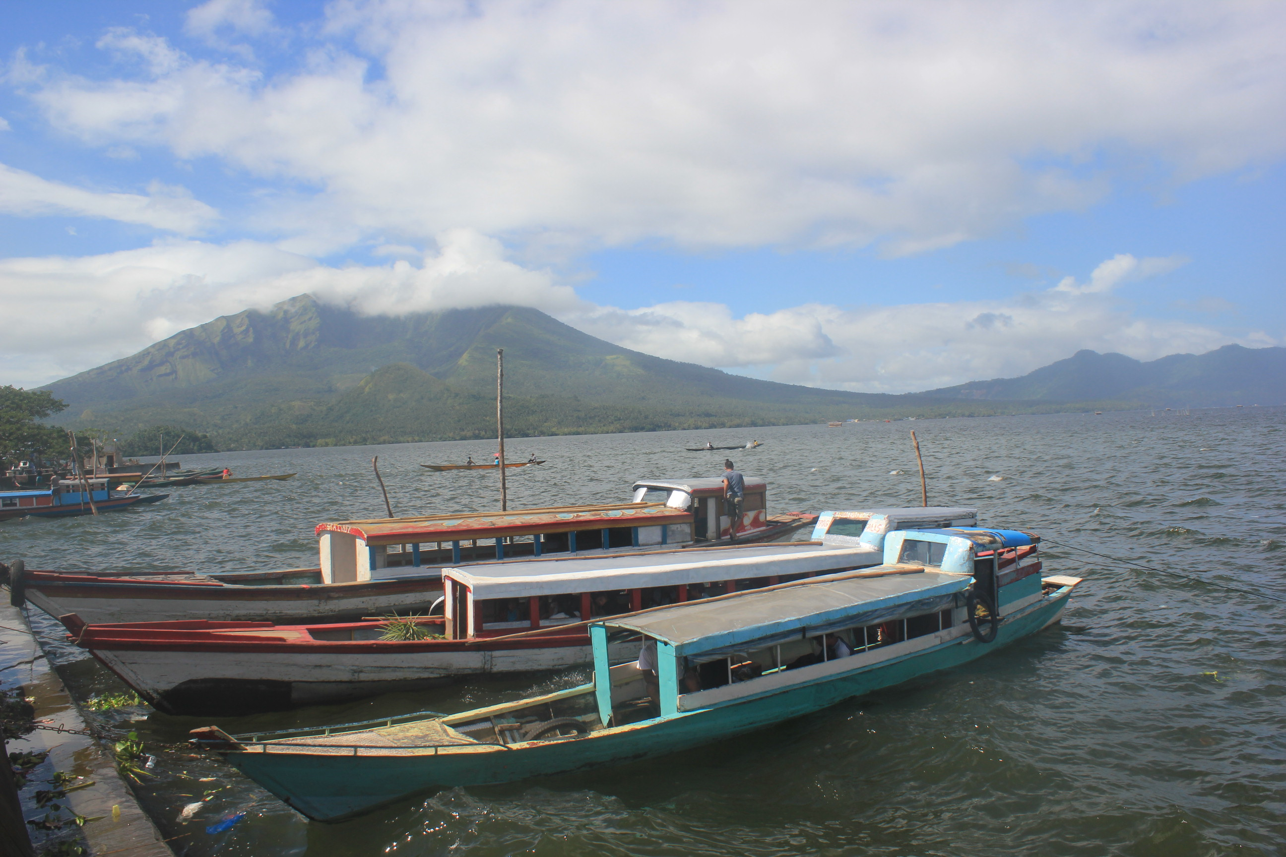 Mt. Asog as seen from Lake Buhi, Buhi Camarines Sur.